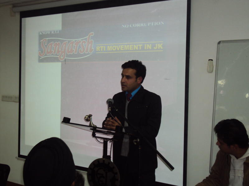 Ayaz Mughal in impa programme